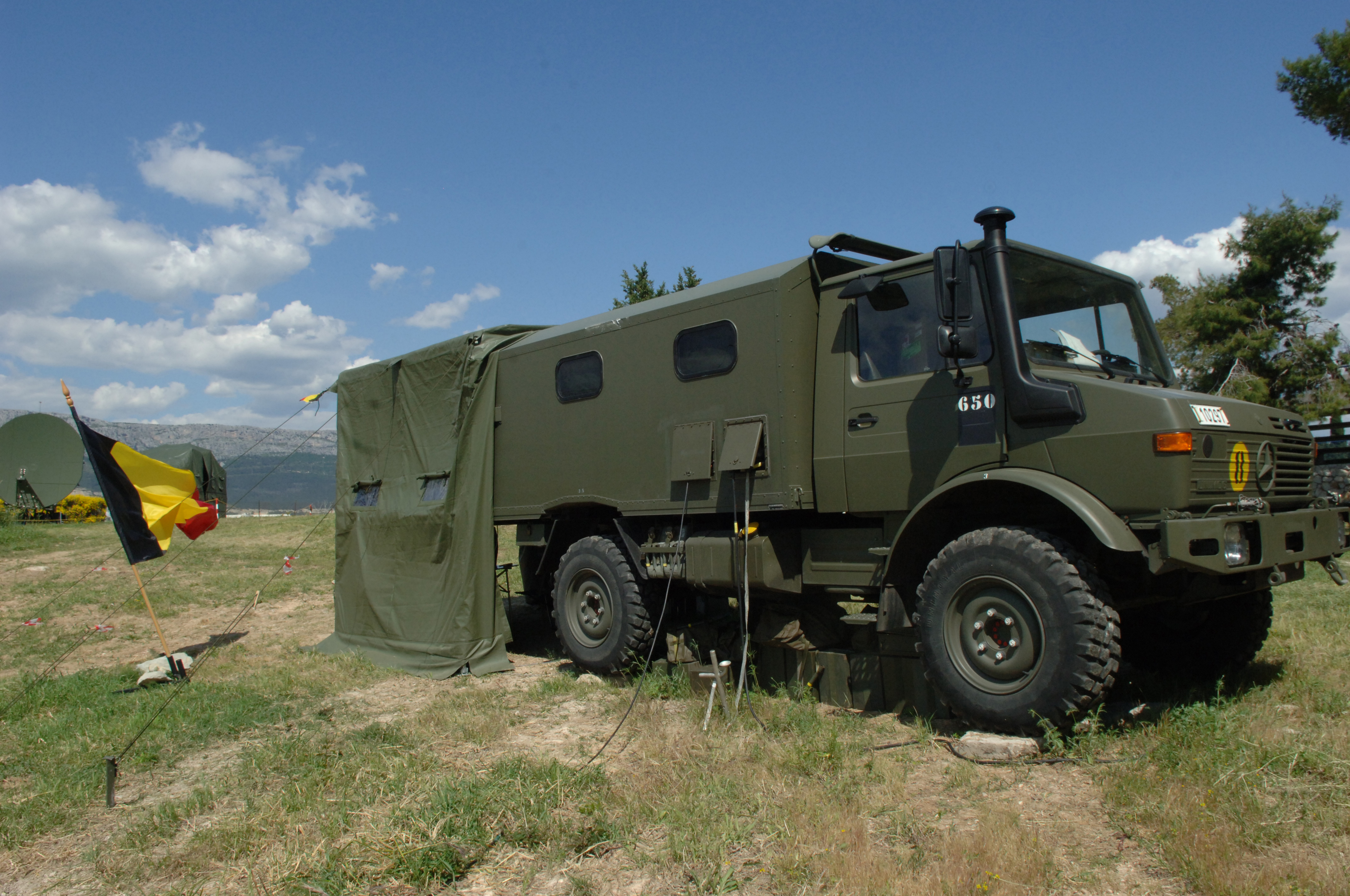 Belgian army soldiers operate from a Unimog truck designed to hold their radio equipment during a training exercise for for Combined Endeavor 2008 on the Lora Naval Station in Croatia May 11, 2008. More than 40 participating nations use the exercise to plan, prepare and practice using a full range of communications, equipment, policies and procedures prior to deploying for NATO missions and emerging, real-world crisis situations.